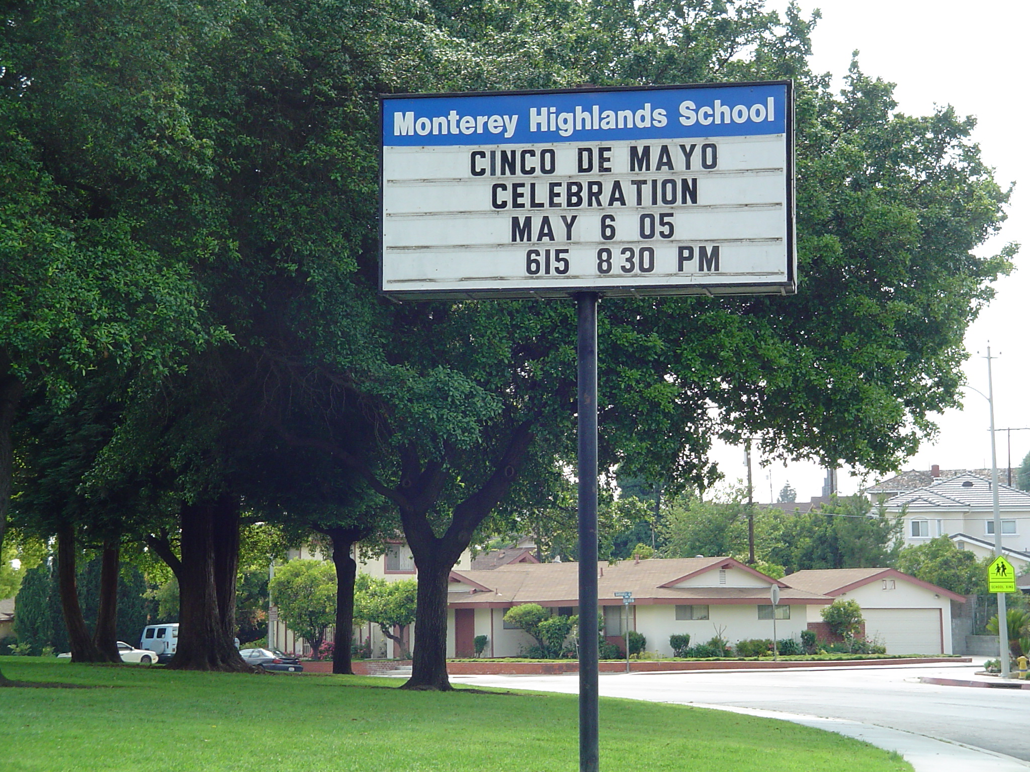 Taken by me on 5/8/05.